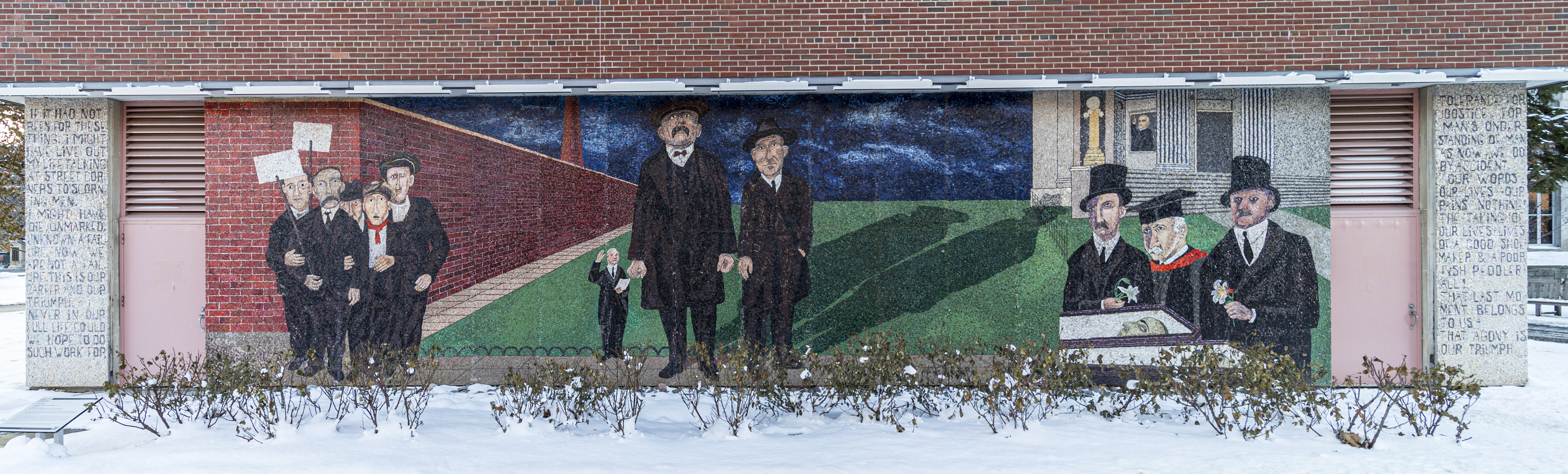 Full view of the Ben Shahn Mural at Syracuse University